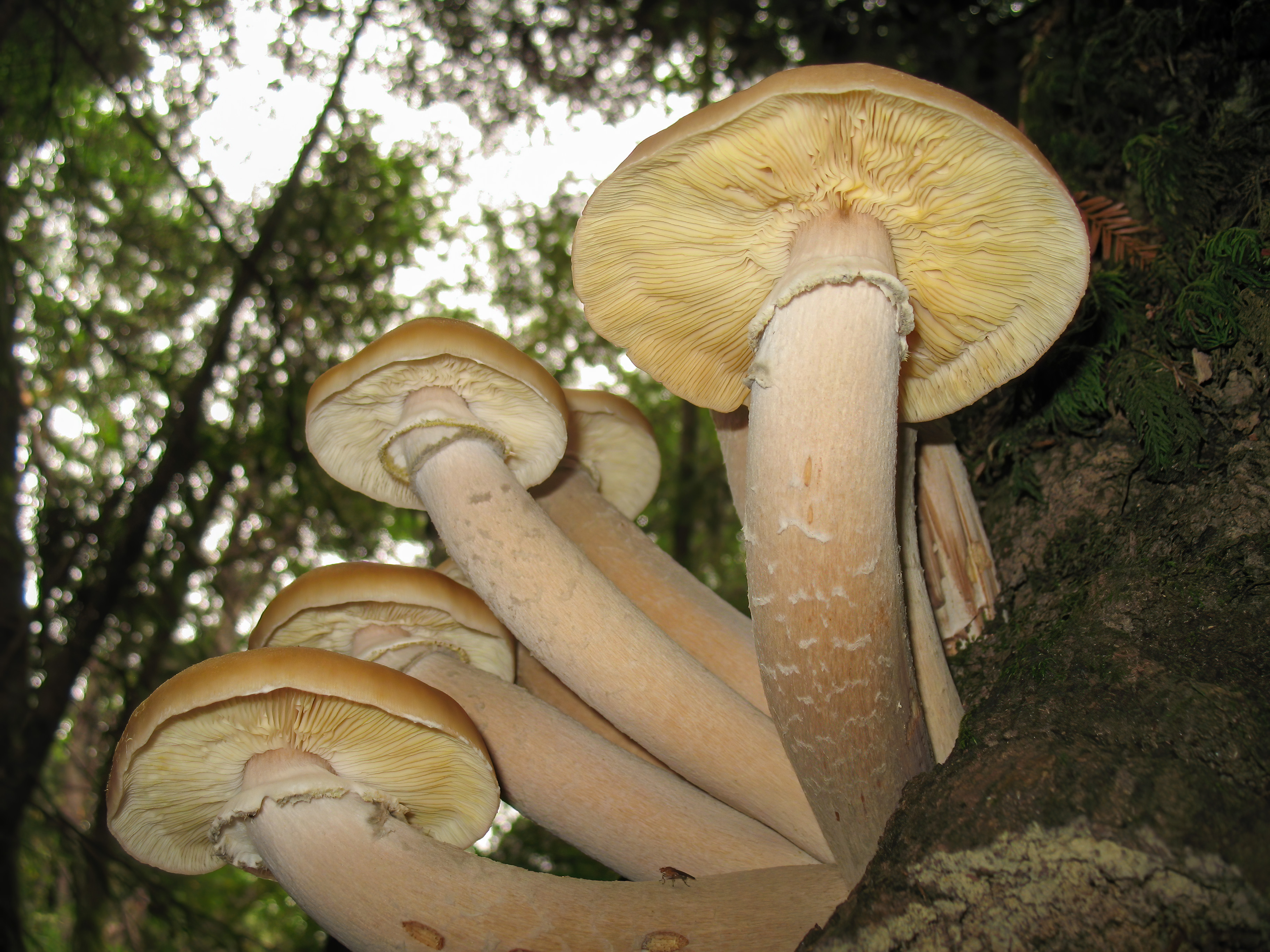 The mushrooms Armillaria ostoyae (Romagn.) Herink. Photographed in Santa Cruz, Santa Cruz Co., California, USA. "Notes: Found these right behind the UCSC water tanks."